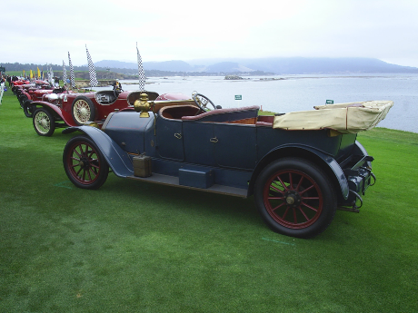 On the 18th green with a part of the 2005 Pebble Beach Concours d'Elegance prewar field. Source Photo taken by User:FeloniousMonk